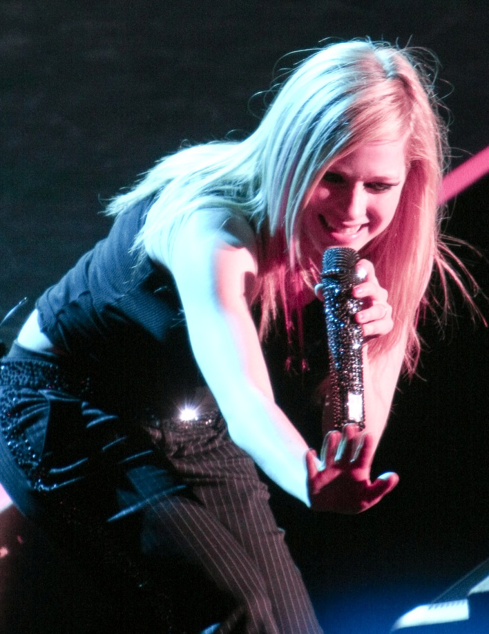 Avril, Beijing 2008